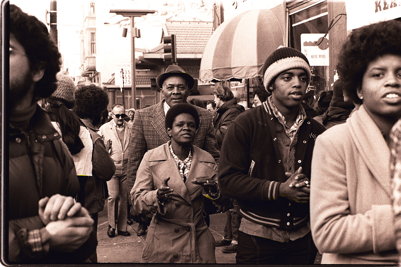 Members of Peoples Temple including Richard Parr, Wesley Johnson, Barbara Hickson, Ricky Johnson and Sandra Cobb attend an anti-eviction rally at the International Hotel, 848 Kearny Street in San Francisco, January 1977. Photo by Nancy Wong